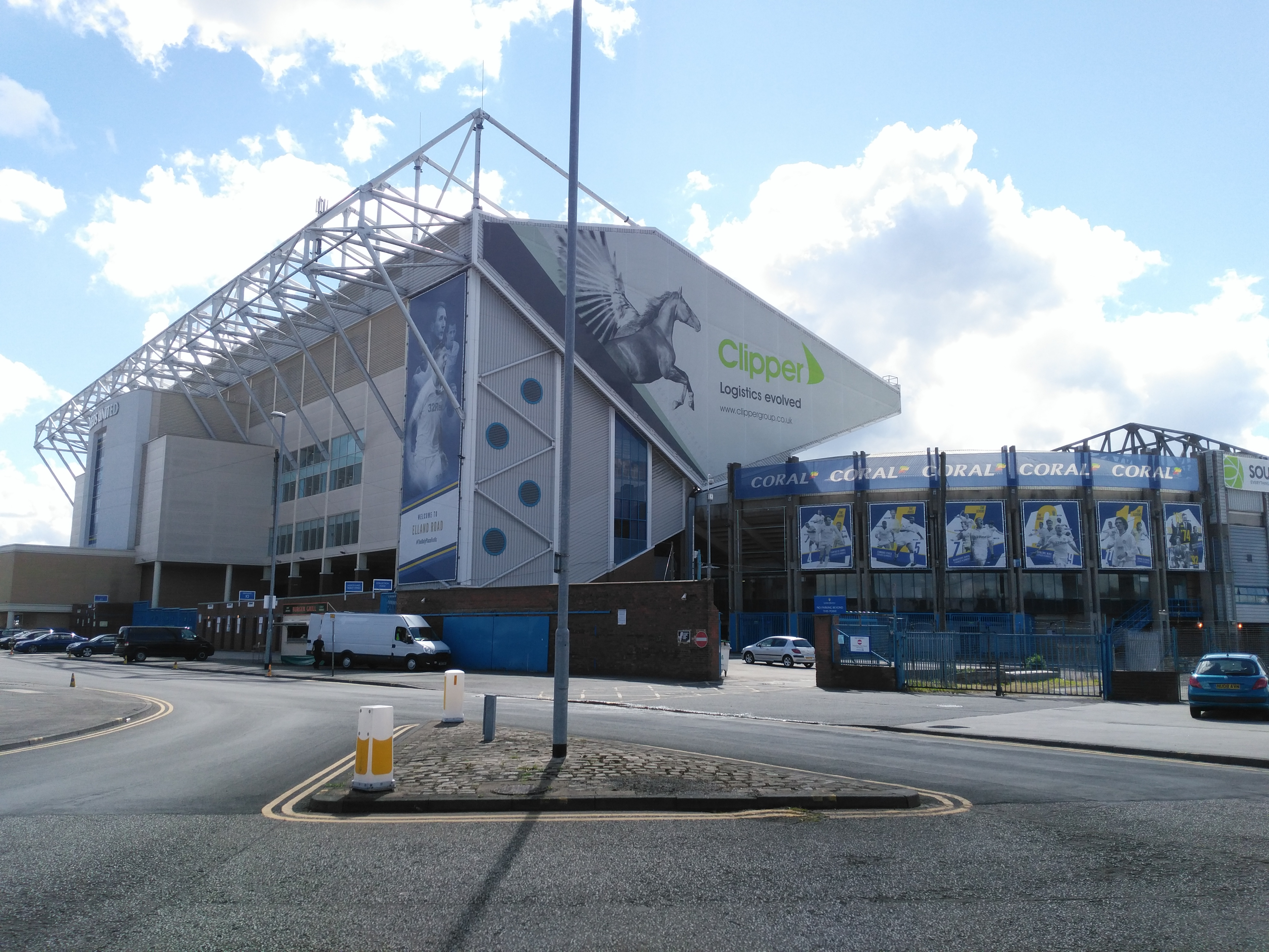 Elland Road East Stand taken from the North East corner of the ground prior to Leeds v Fulham on 15/08/2017